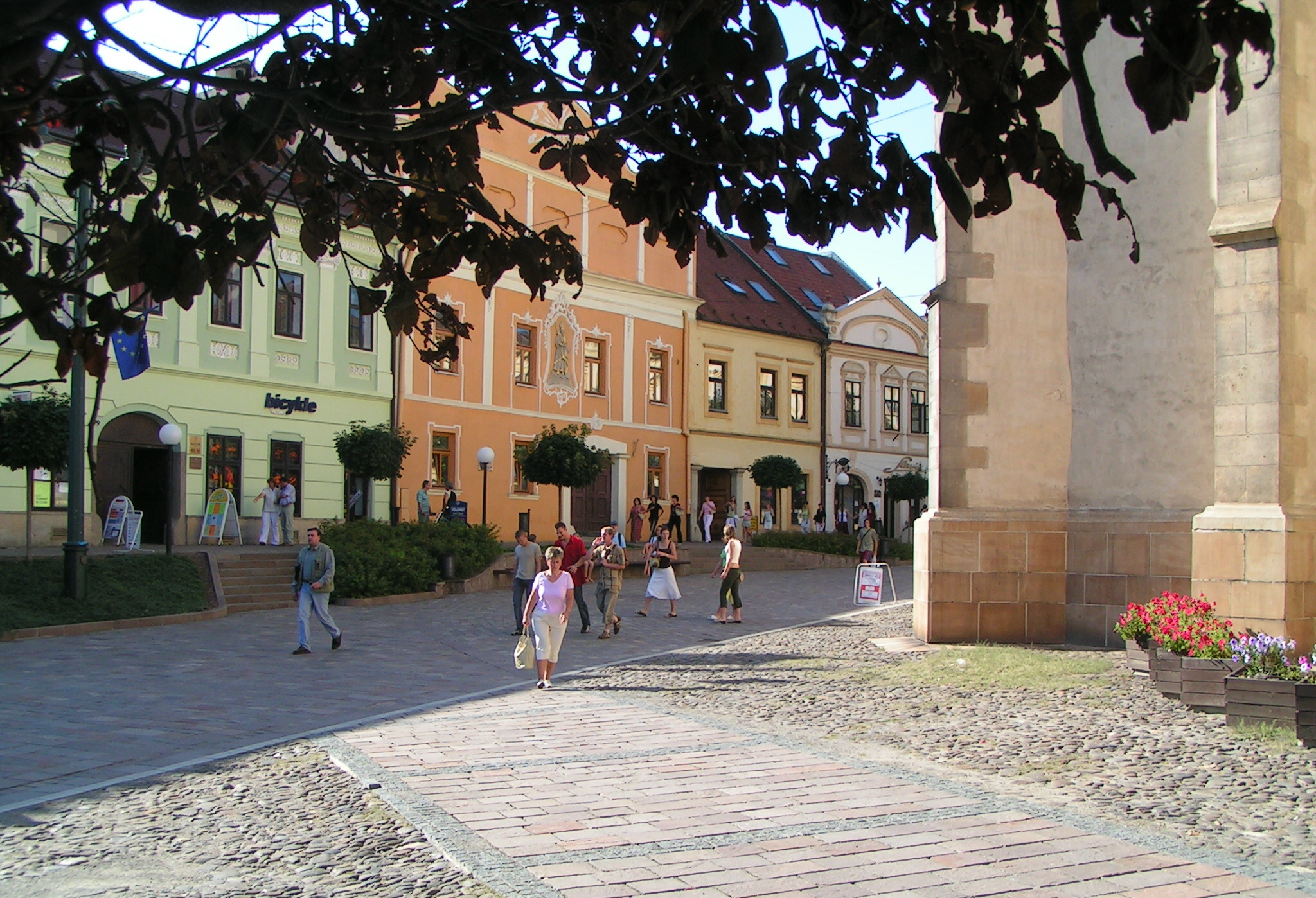 Presov - historic houses and Saint Nicholas Concathedral